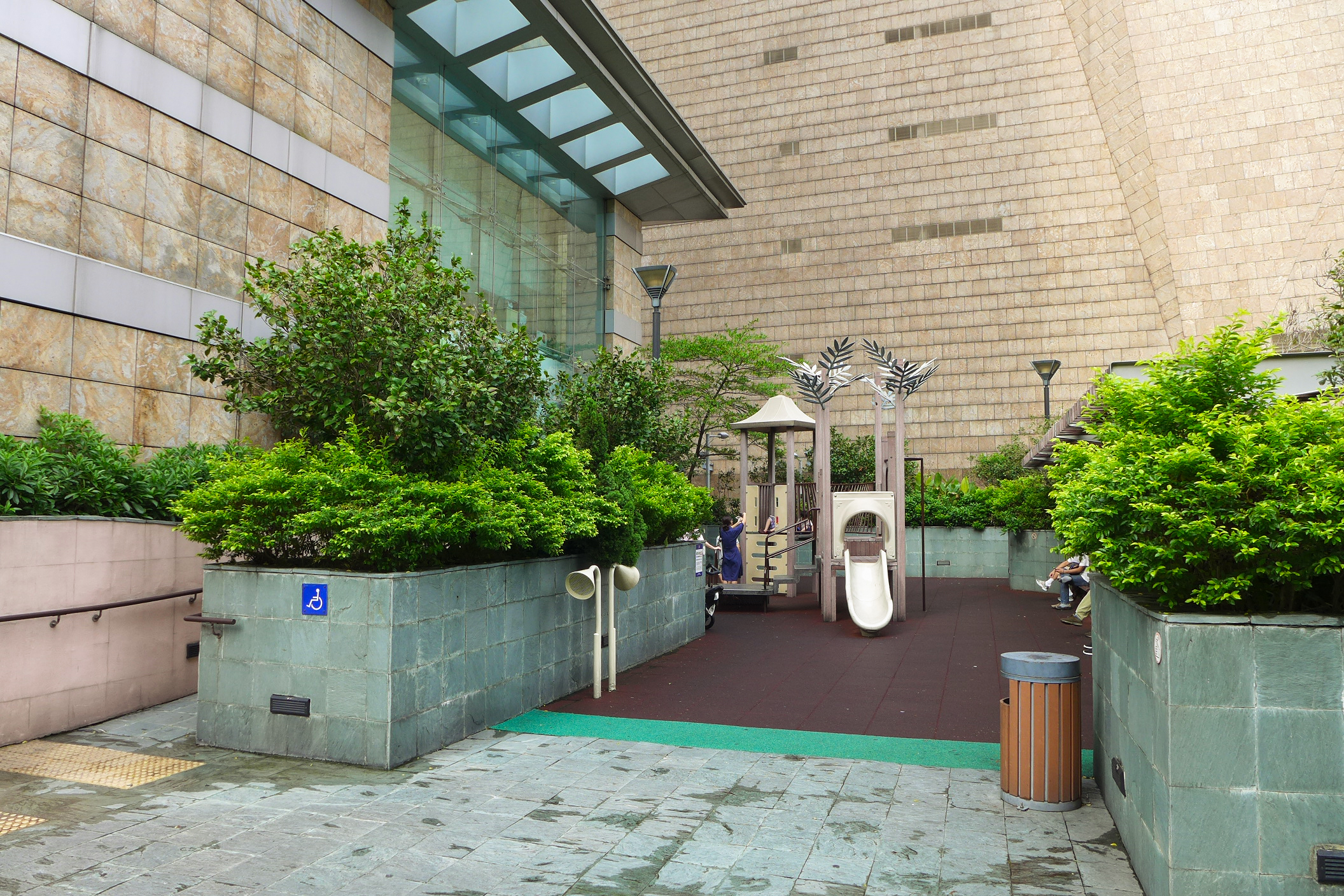 Mong Kok Complex